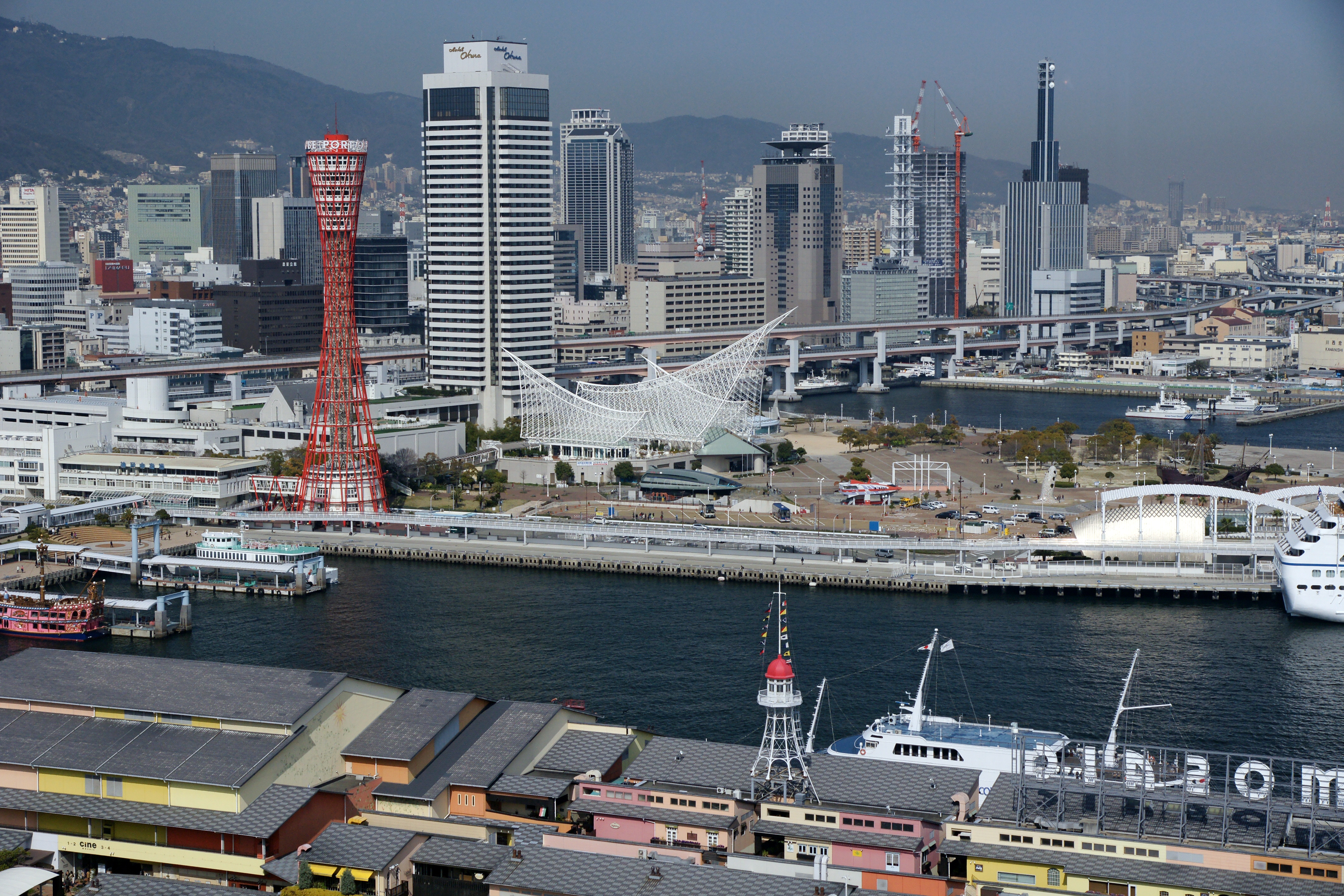 "MOSAIC" of Harborland in Kobe, Hyogo prefecture, Japan